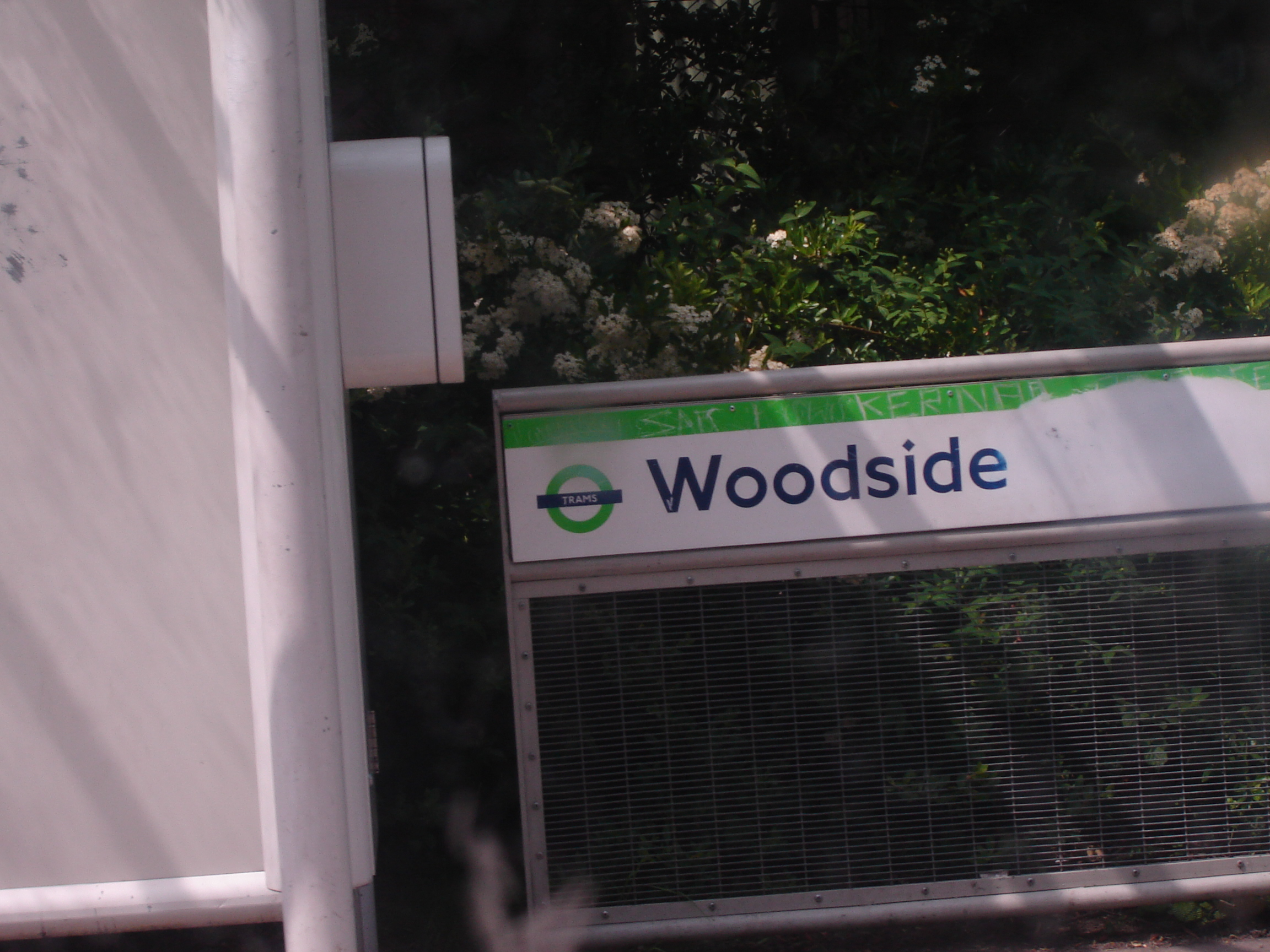 This is a picture of a sign for Woodside tram stop.